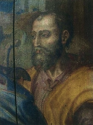 Detail of the painting of the Visitation of the Virgin to Saint Elizabeth (c. 1589-91), by Giraldo Fernandes de Prado, in the altar of the Church of Misericórdia, in Almada, Portugal, with a possible likeness of writer and explorer Fernão Mendes Pinto (c.1509-1583).